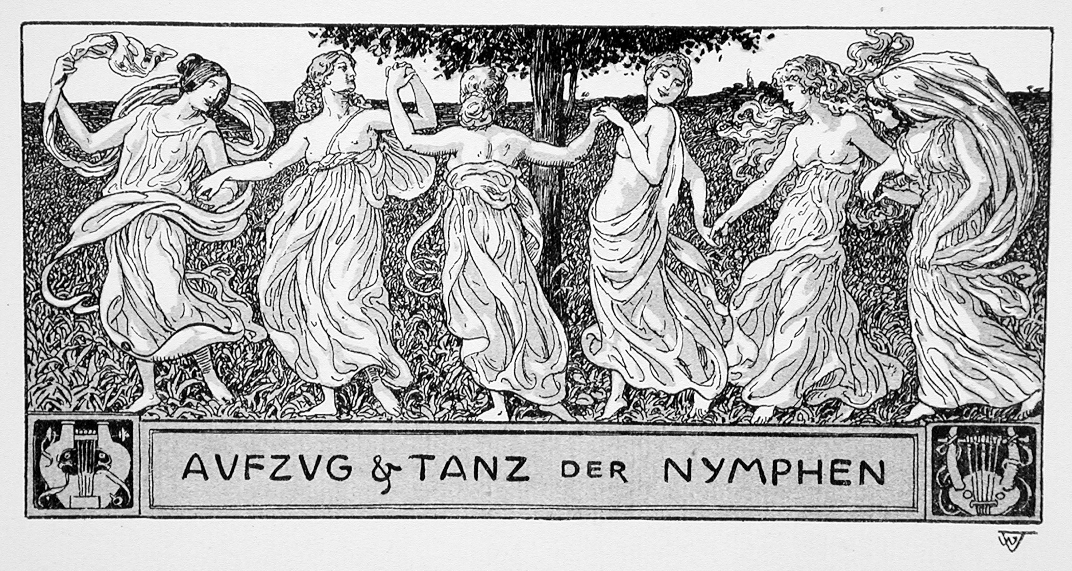 Germany, circa 1898 Alternate Title: Aufzug und Tanz der Nymphen Volume, number, page: 4, no. 2 (1898); following page 100 Prints; lithographs Lithograph printed in red and brown on laid paper Image: 4 1/4 x 8 1/4 in. (10.79 x 20.95 cm) The Robert Gore Rifkind Center for German Expressionist Studies, purchased with funds provided by Anna Bing Arnold, Museum Associates Acquisition Fund, and deaccession funds (83.1.1356i) German Expressionism